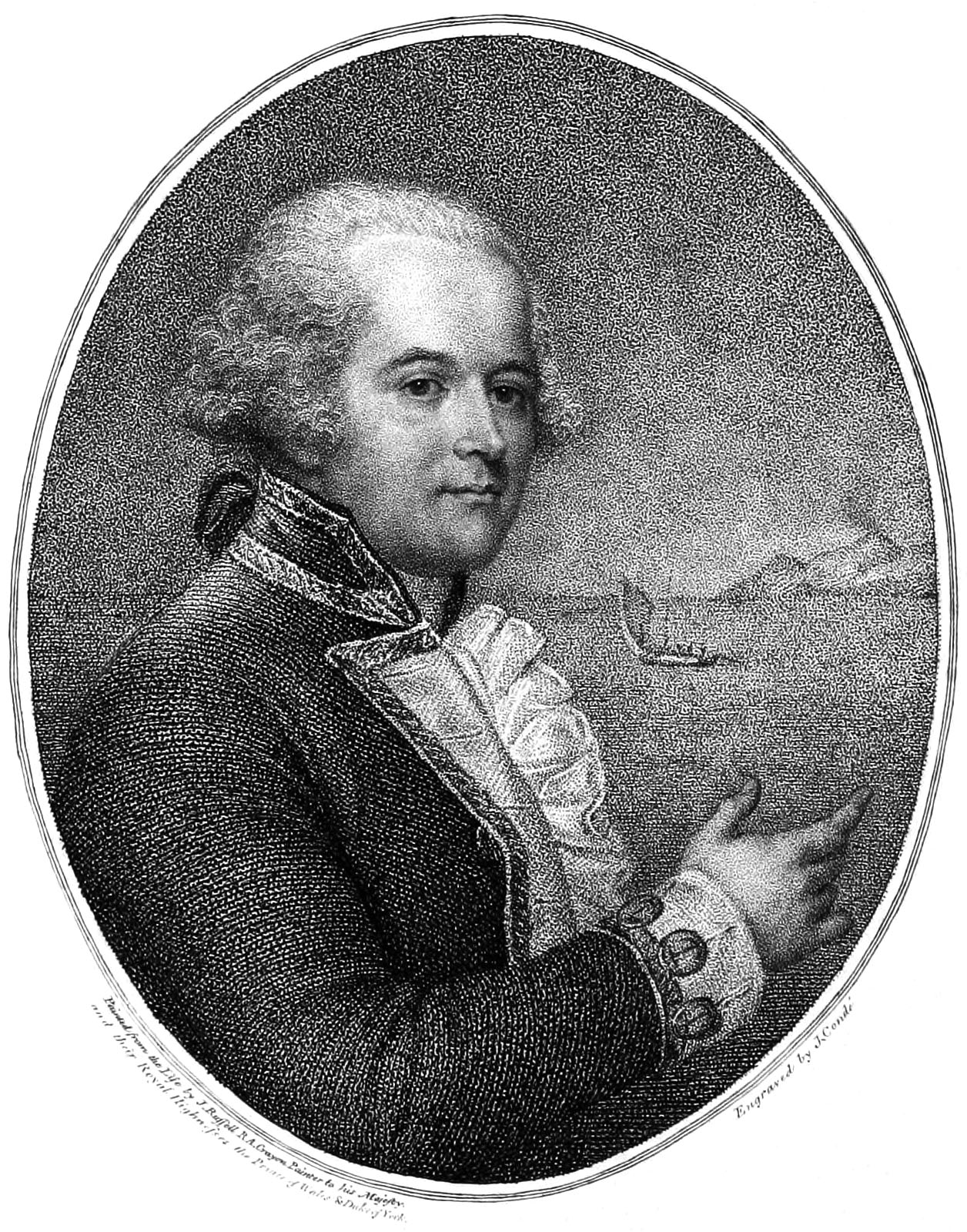 Portrait of William Bligh